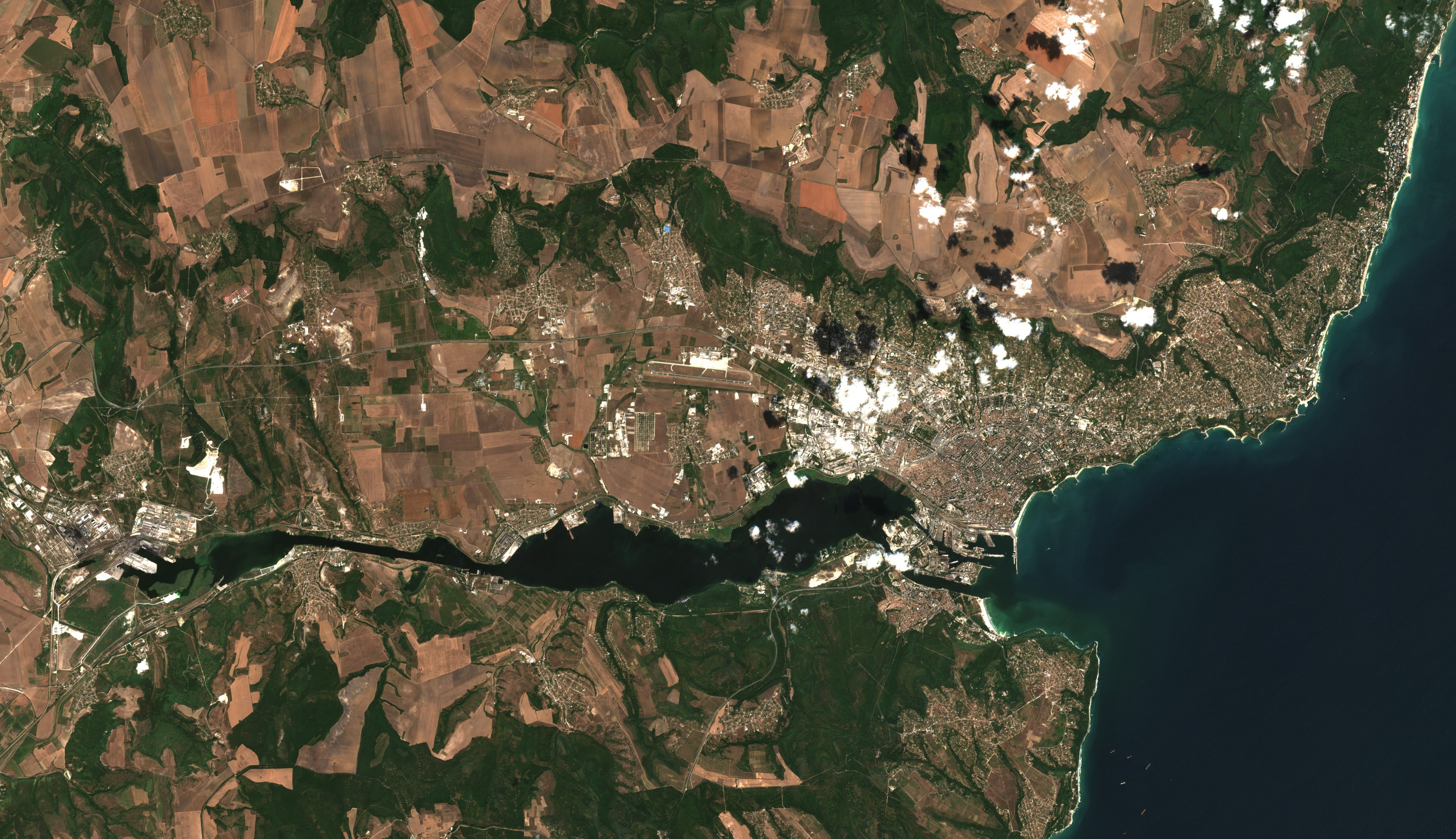 Varna, Bulgaria as seen by Sentinel-2 satellite, 31 August 2019